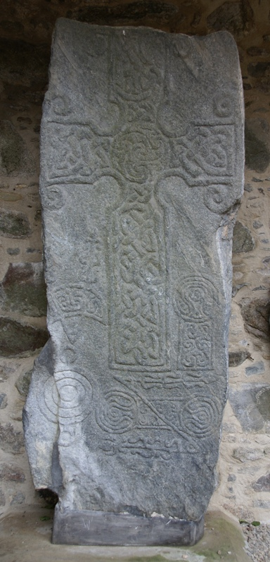 Dyce Symbol Stones, Dyce, Aberdeenshire, Scotland - Dyce 2